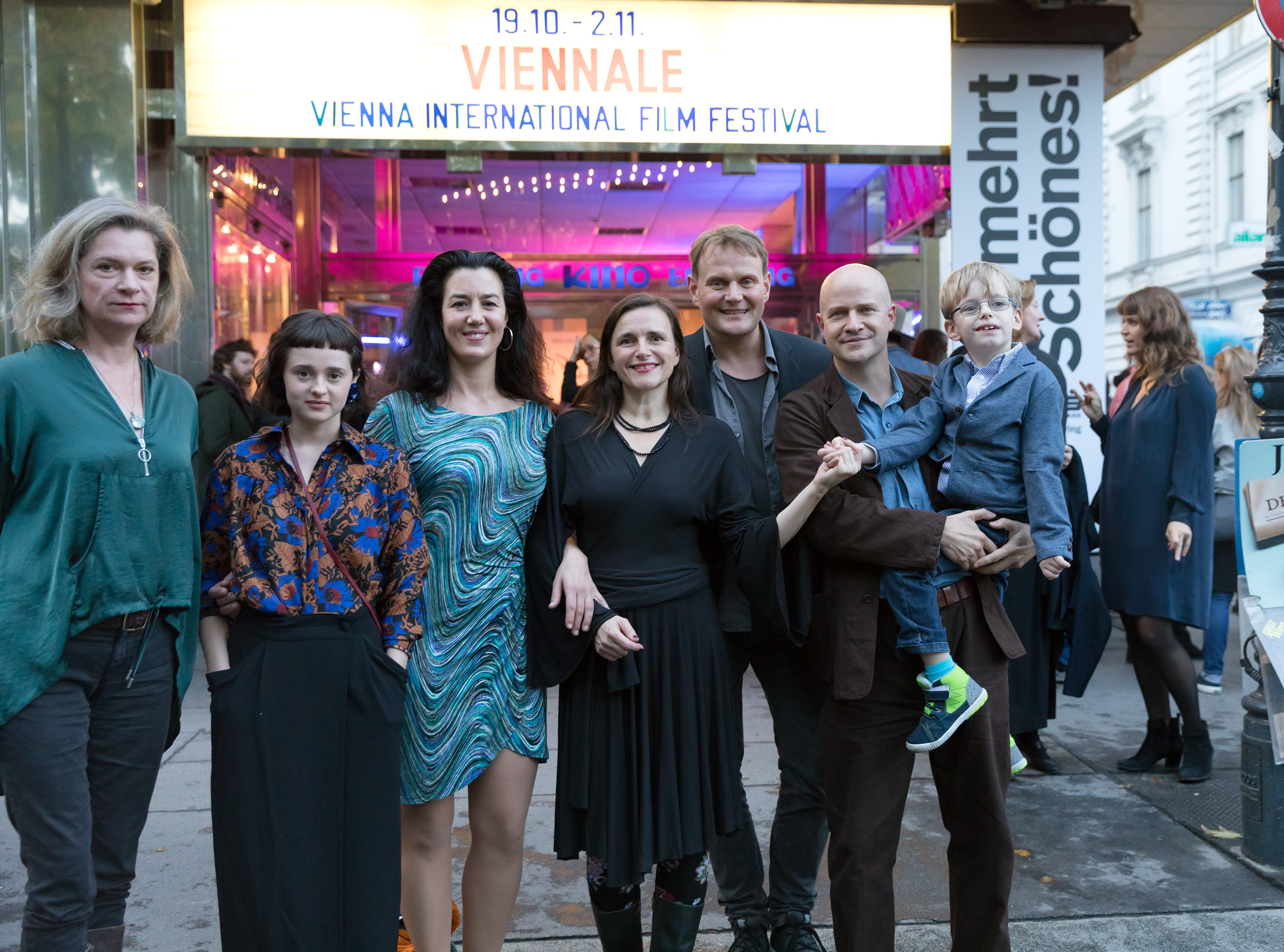 Barbara Albert with part of the film team of Mademoiselle Paradis at the Vienna International Film Festival 2017 (Gartenbaukino, Vienna, Austria).